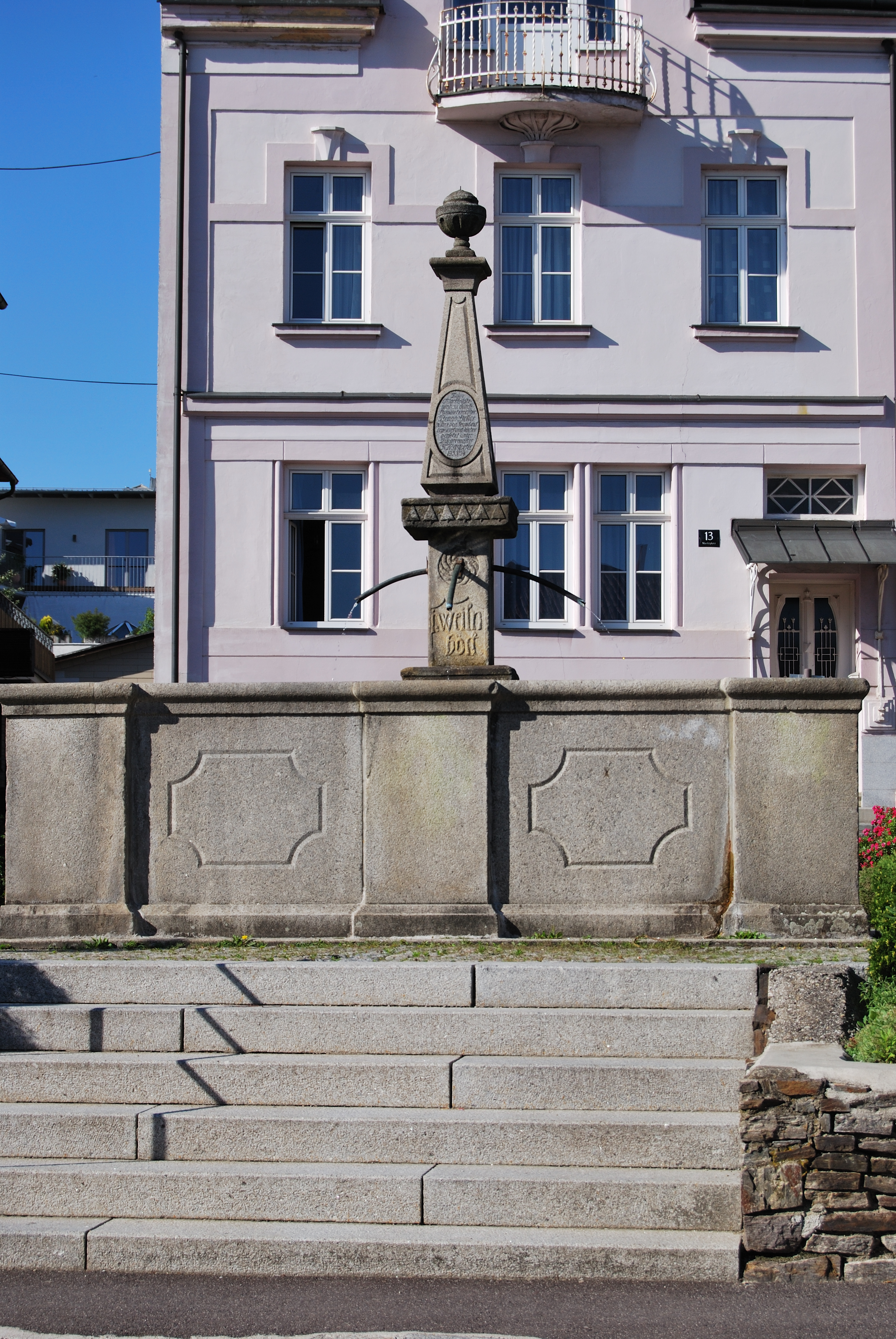 Water well at townsquare in Gallneukirchen.